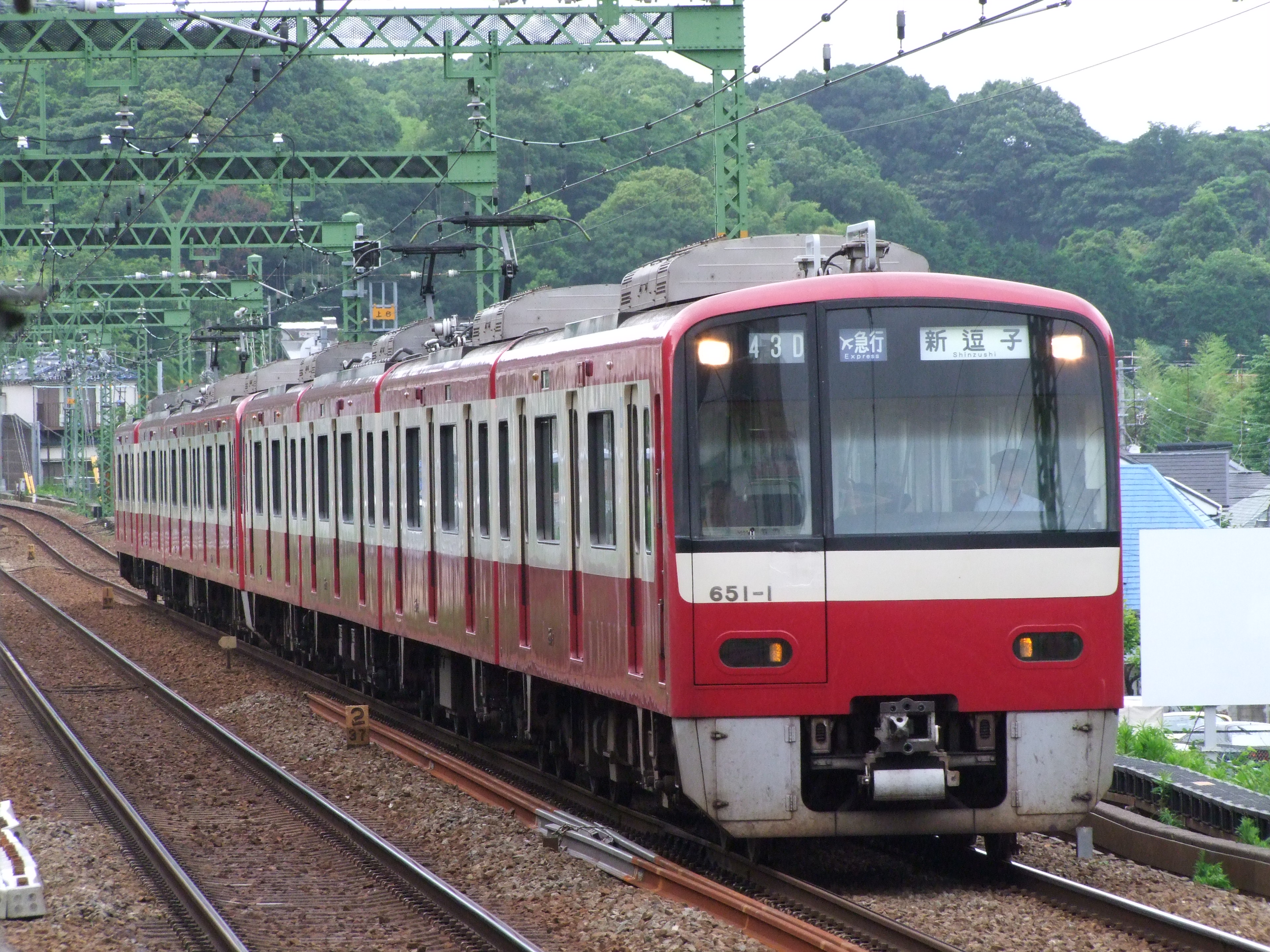 Keikyu 600 series (III), Deha651-1 in "Airport Kyūkō" express train, at Nōkendai Station.